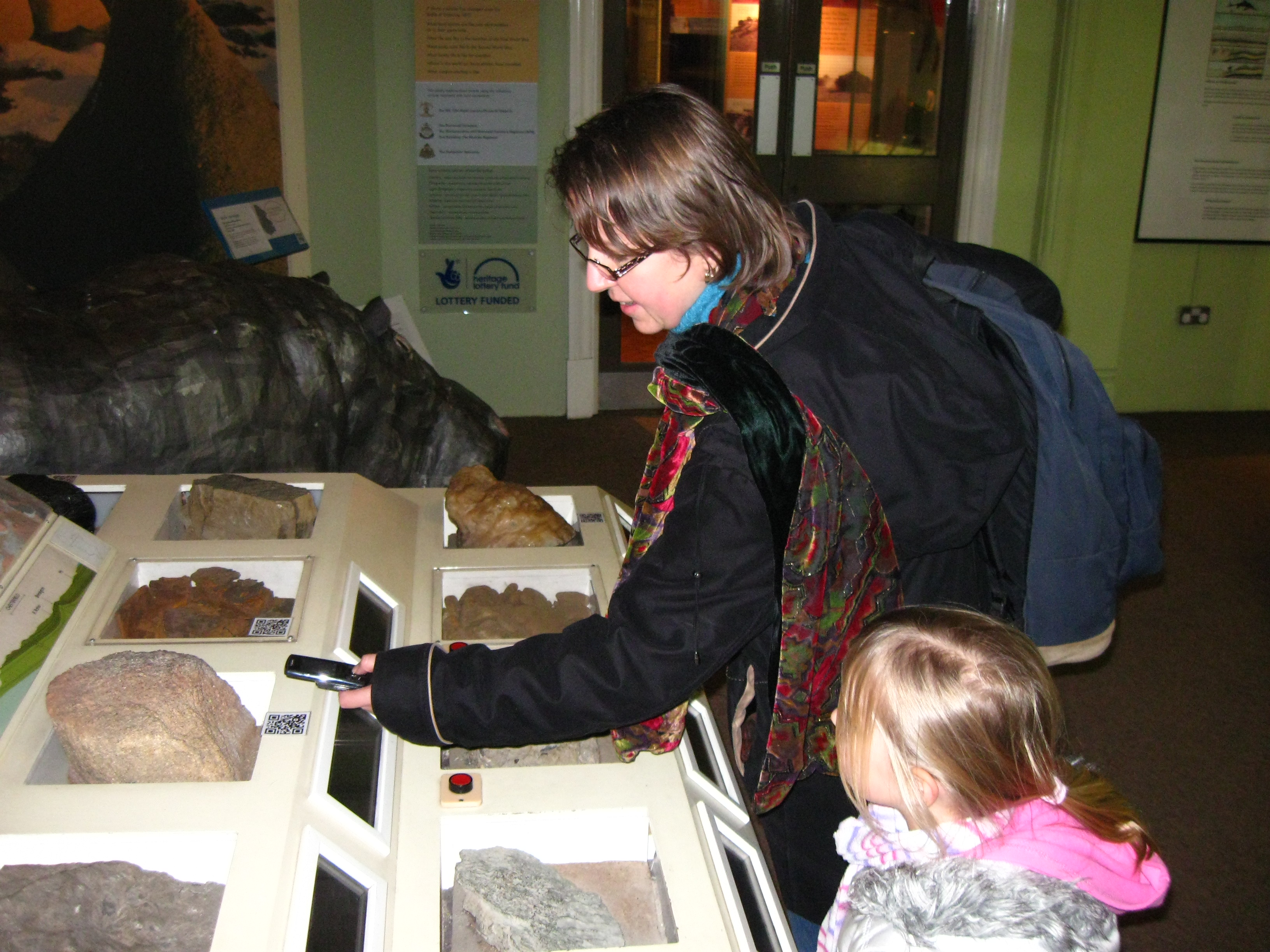 QRpedia QR Code experiment at Derby Museum and Art Gallery. This code is on a geology exhibit.